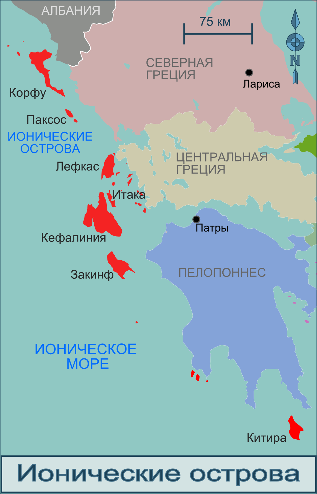 Greek Ionian Islands map. Russian version, Ionian Islands Map of: Greece¤.